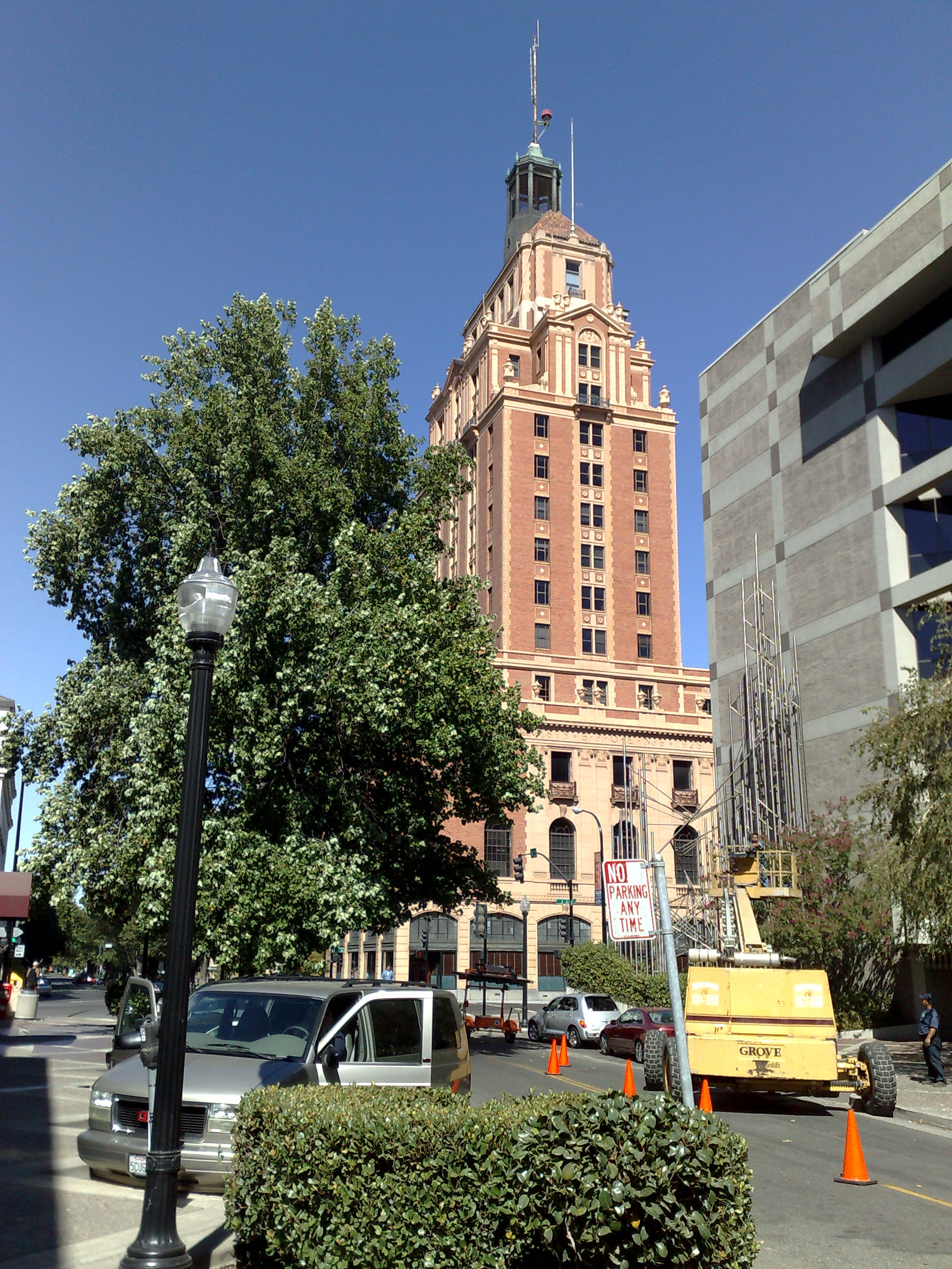 I believe I pretended well to focus on the high rise.